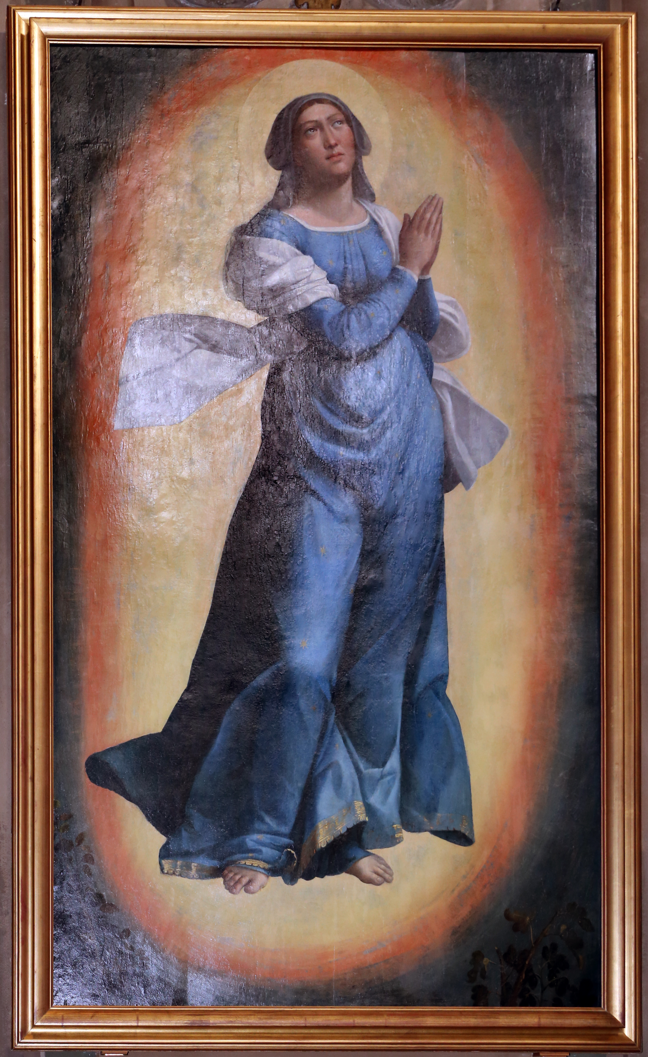 Cathedral (Ferrara) - Interior